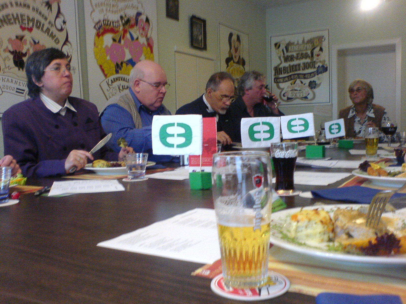 Zamenhof feast of the Esperanto group Senlime in Kelmis (former Neutral Moresnet) on December 14, 2008.